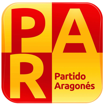 Simplified logo of Aragonese Party (PAR).